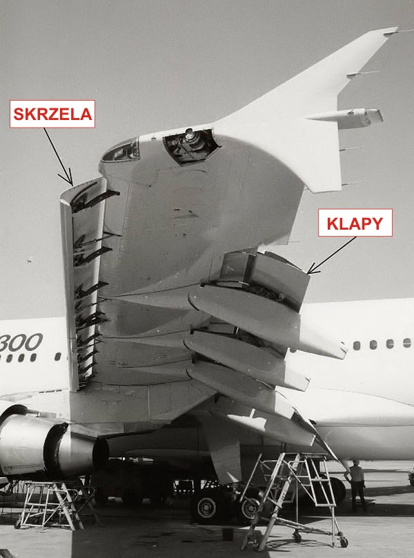 From Image:Wing.slat.600pix.jpg, revision as of 02:35, 2004 Dec 16 UTC by User:Grendelkhan *First uploaded 17:11, 2003 Jun 9 UTC by User:Arpingstone *Following information was copied from the page of the same revision (as of 02:35, 2004 Dec 16 UTC): The position of the leading edge slats on an airliner (Airbus A310-300). Taken by Adrian Pingstone and released to the public domain.